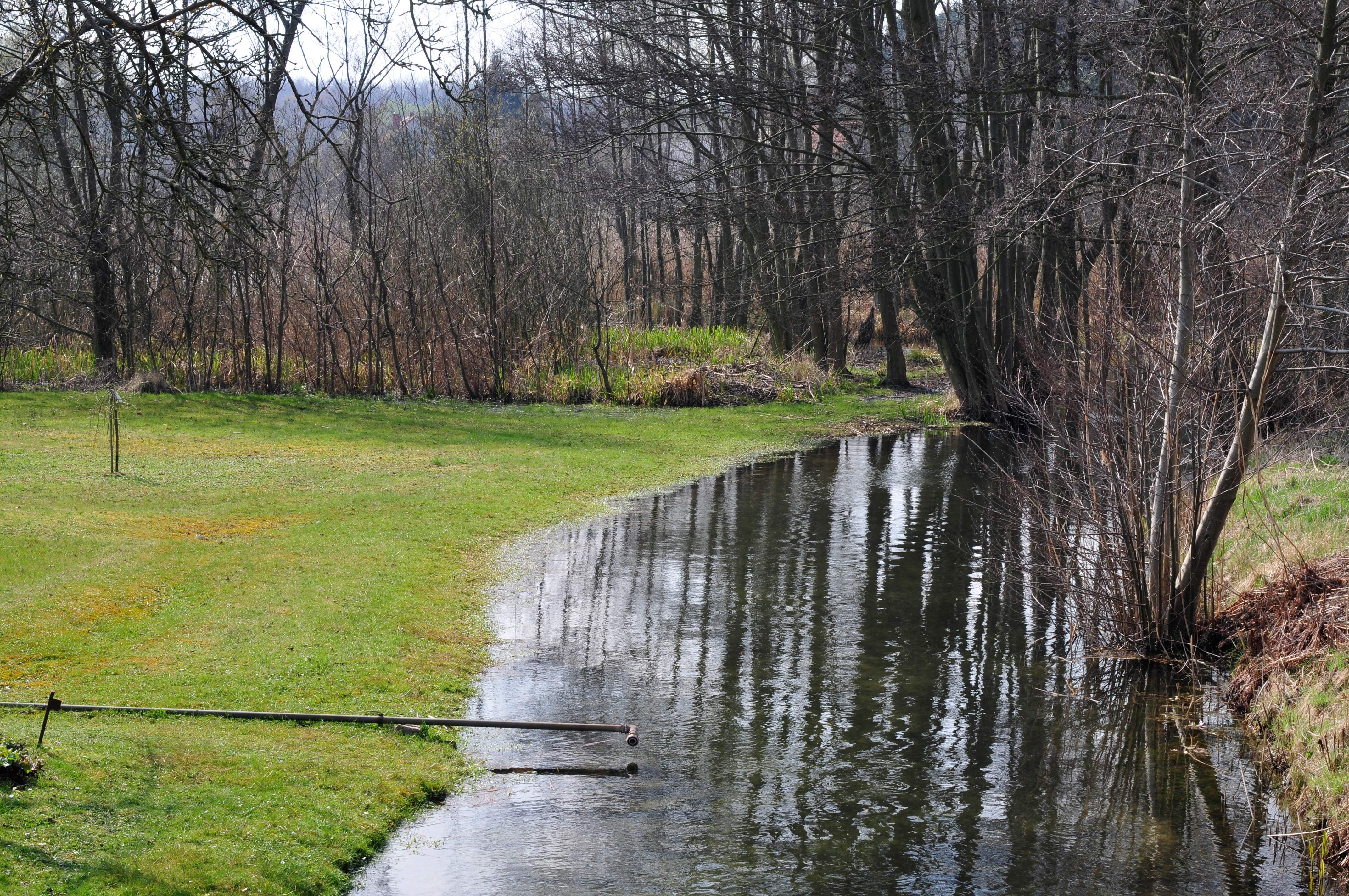 Brodowin, Nettelgraben (Germany)